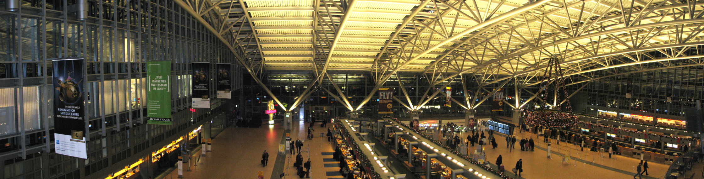 Terminal 2 at Hamburg Airport